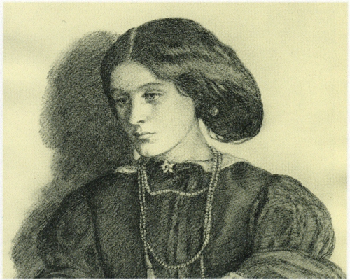 Drawing of Georgiana Burne-Jones, c. 1860